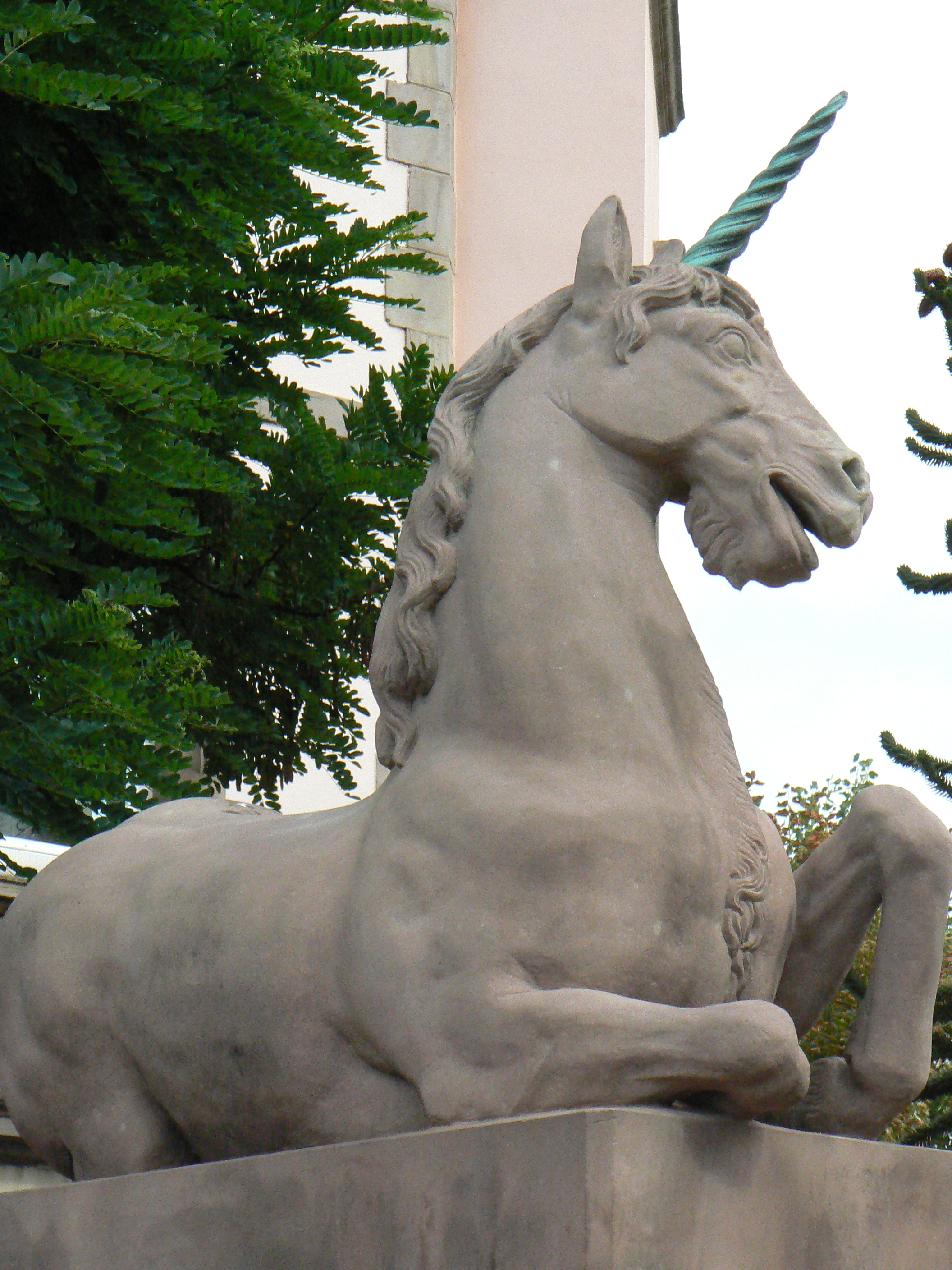 The statue of the unicorn. André Friederich, The Fountain of the Unicorn (1837), Main Street, Saverne, Bas-Rhin, France.